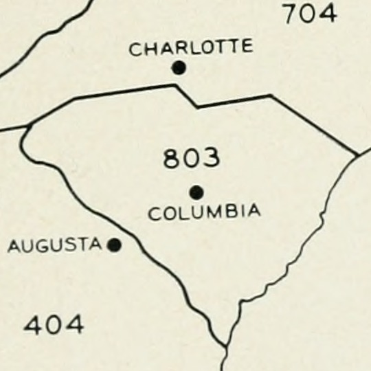 803 area code, as of 1952: the whole of South Carolina.